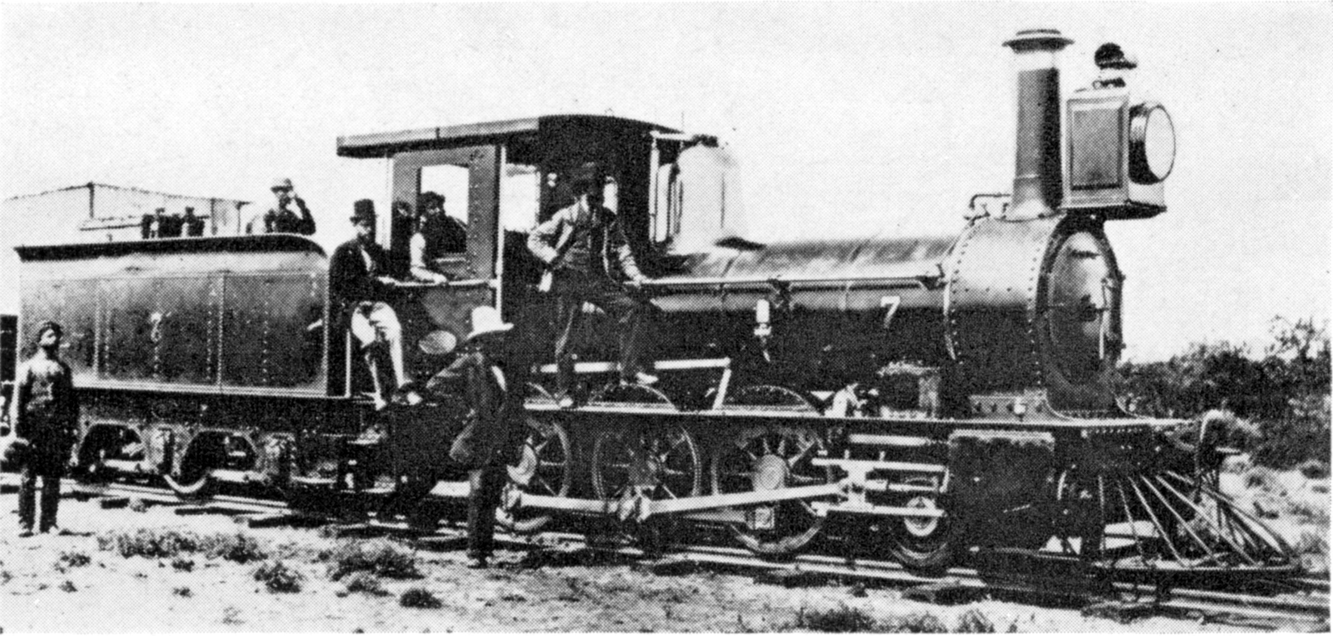 Cape Government Railways 1st Class 2-6-0 of 1876, no W7 at Bellville near Cape Town